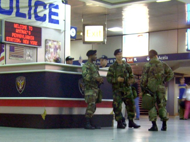 This picture was taken on July 17, 2004, at Penn Station in New York City. It depicts some Army National Guard members. At least one of the guardsmen are armed, though all three are equipped with gas mask carriers. The picture was taken somewhat surreptitiously, hence the low quality. The camera was a Toshiba PDR-2300. The image was auto-leveled, rotated slightly, and despeckled with The Gimp, before being cropped and scaled down (original resolution was 1600x1200) and saved as JPEG with a quality of 0.81.